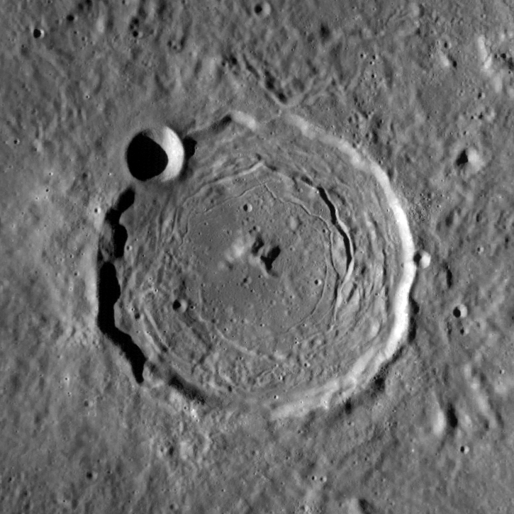 Crater Taruntius on the Moon, on the northern shore of Mare Fecunditatis. Photo by Lunar Reconnaissance Orbiter, made with Wide Angle Camera on 28 November 2015 from altitude 63 km. Sun elevation is 16.1°. Width of the photo is 95 km, north is up.